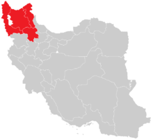 The map of northwestern provinces of Iran (Iranian Azerbaijan) which includes West Azerbaijan, East Azerbaijan and Ardabil File:Blank-Map-Iran.PNG